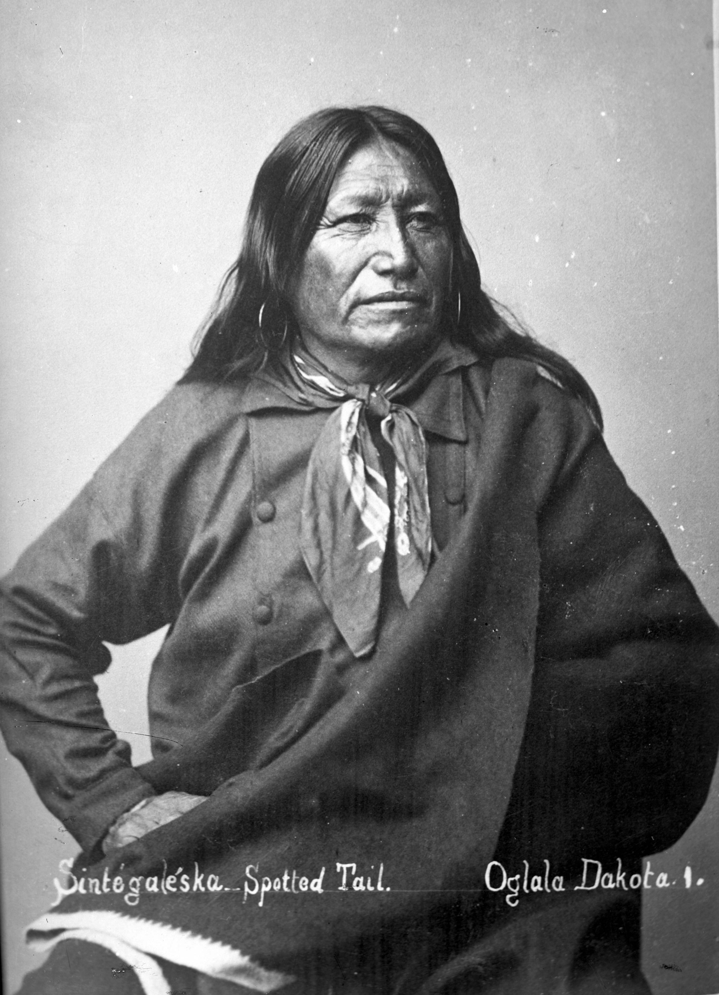 Studio portrait, 3/4 length, of Sintegaleska (Spotted Tail), Sichangu (erroneusly classified as Oglala) Dakota Chief, wearing scarf, jacket and blanket. Copy photonegative is cropped. On glass plate: B-240.; Original image photographed by C.M. Bell. Photoprint cropped; printed by D.F. Barry at later date.